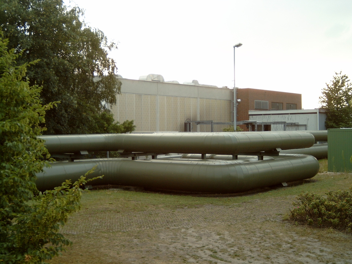 community power plant Hanover (Germany), district heating main pipes with U-bows for expansion compensation